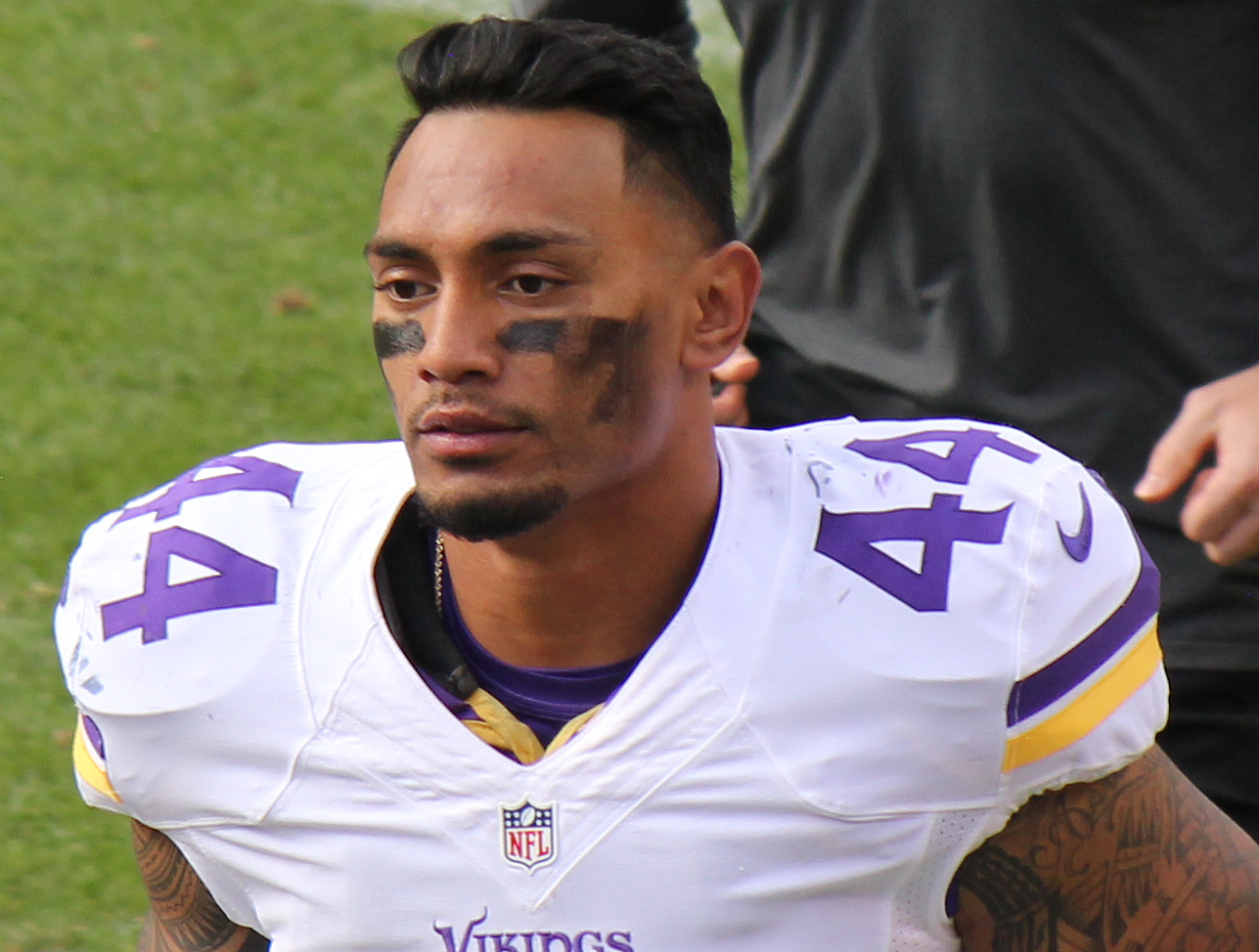 Matt Asiata, a player on the National Football League.